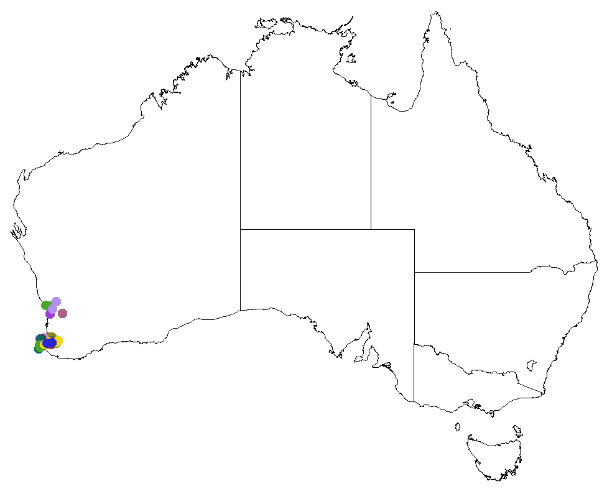 1637 collections by Mary Ann McHard downloaded from Australasian Virtual Herbarium on 20 September using